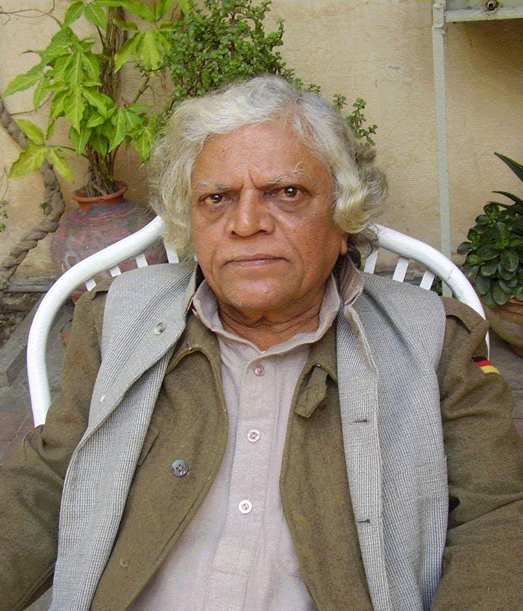 Portrait of Ajaz Anwar